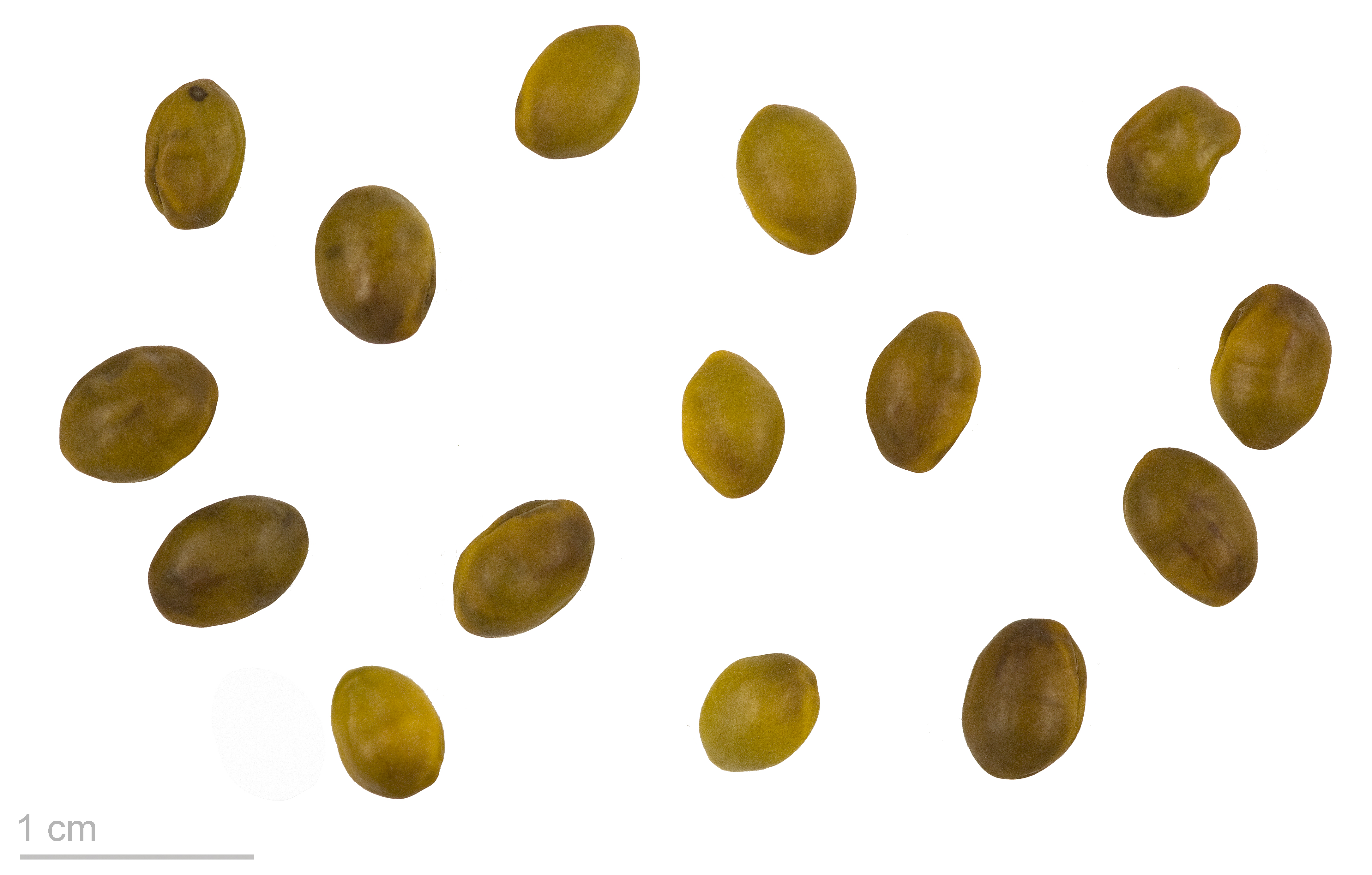 kowhai, fruits and seeds